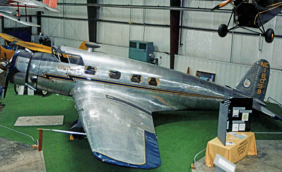 The sole surviving Vultee V-1 exhibited at the Virginia Aviation Museum at Richmond, Virginia.